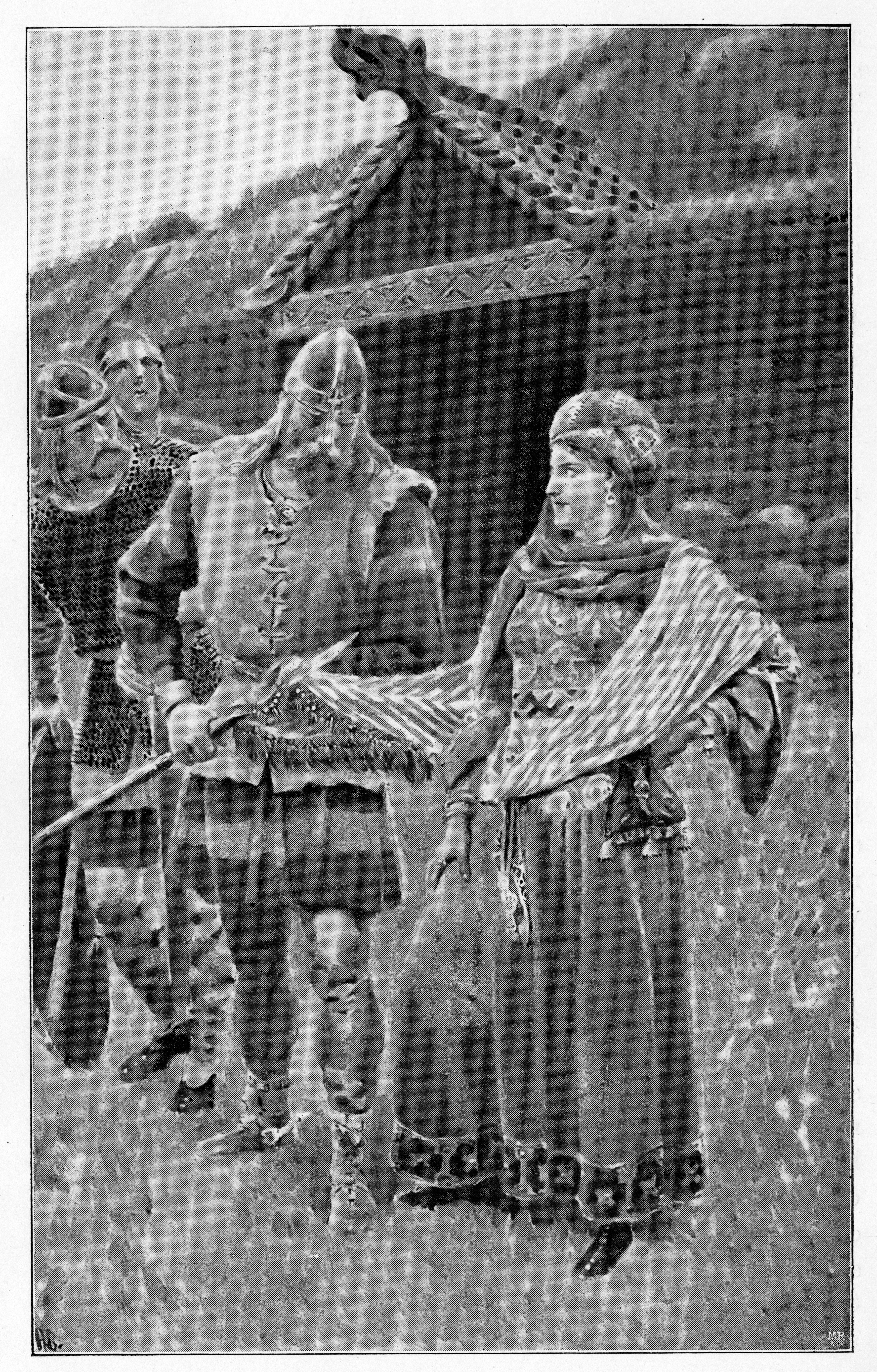 From the Laxdæla Saga: "Guðrún was dressed in a kirtle of rám-stuff, and a tight-fitting woven bodice, a high bent coif on her head, and she had tied a scarf round her with dark-blue stripes, and fringed at the ends. Helgi Harðbeinsson went up to Guðrún, and caught hold of the scarf end, and wiped the blood off the spear with it, the same spear with which he had thrust Bolli through. Guðrún glanced at him and smiled slightly. Then Halldor said, 'That was blackguardly and gruesomely done.' Illustration from "Vore fædres liv" : karakterer og skildringer fra sagatiden / samlet og udggivet af Nordahl Rolfsen ; oversættelsen ved Gerhard Gran., Kristiania: Stenersen, 1898. English description translated from Icelandic by Muriel A C Press in 1880.